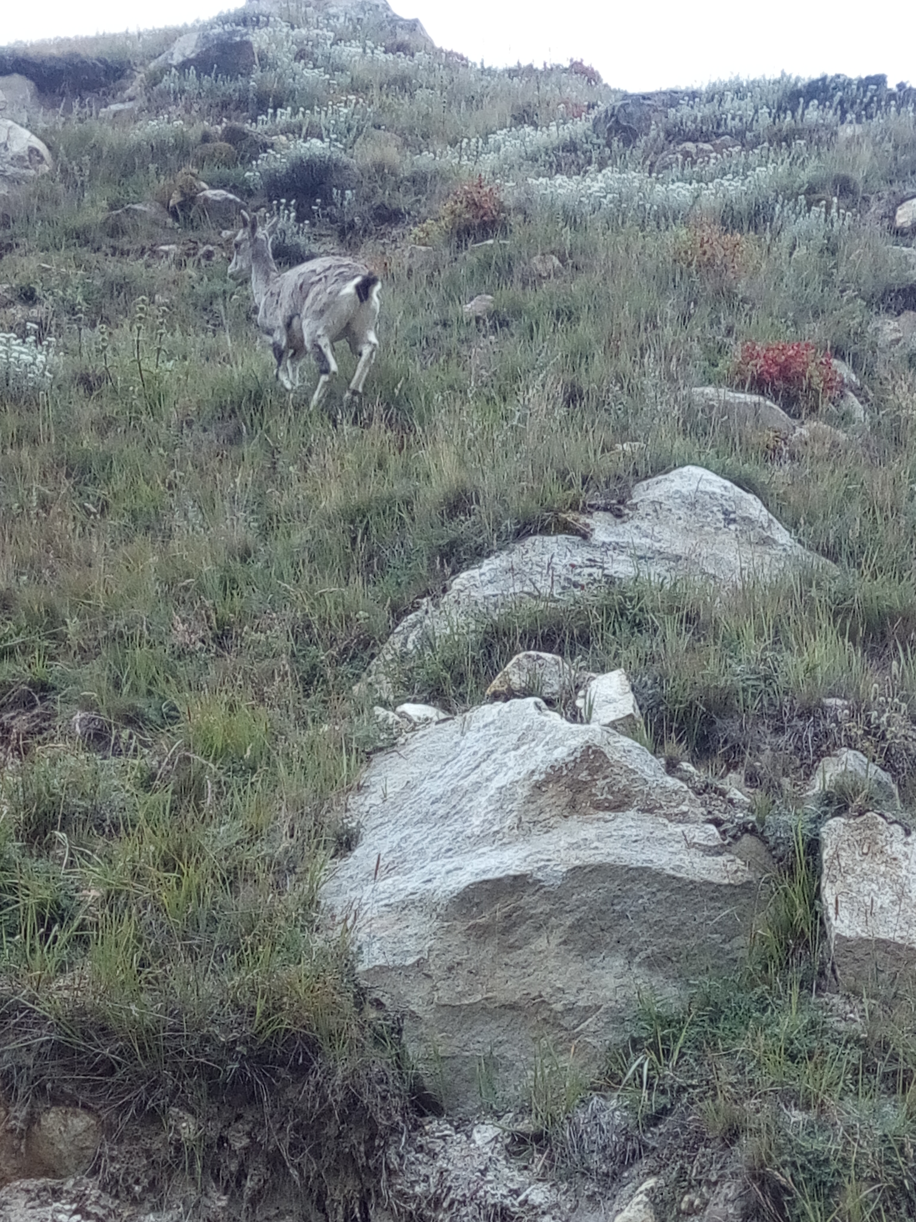 Blue sheep or bharal is a goat species at high altitude himalayas. Photo taken from bhojwasa -gomukh